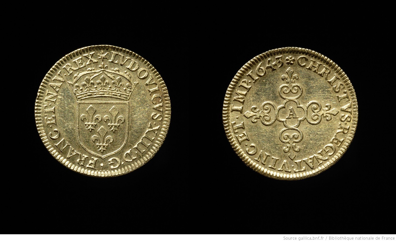 Piedfort of gold écu, Louis XIII, France. 13.48 g. Inscription : LVDOVICVS.XIII.D.G.FRANC.ET.NAV.REX ; rose CHRISTVS.REGNAT.VINC.ET.IMP.1643 ; + EXEMPLVM PROBATI NVMISMATIS.